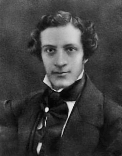 Henry Gray, author of Gray's Anatomy.